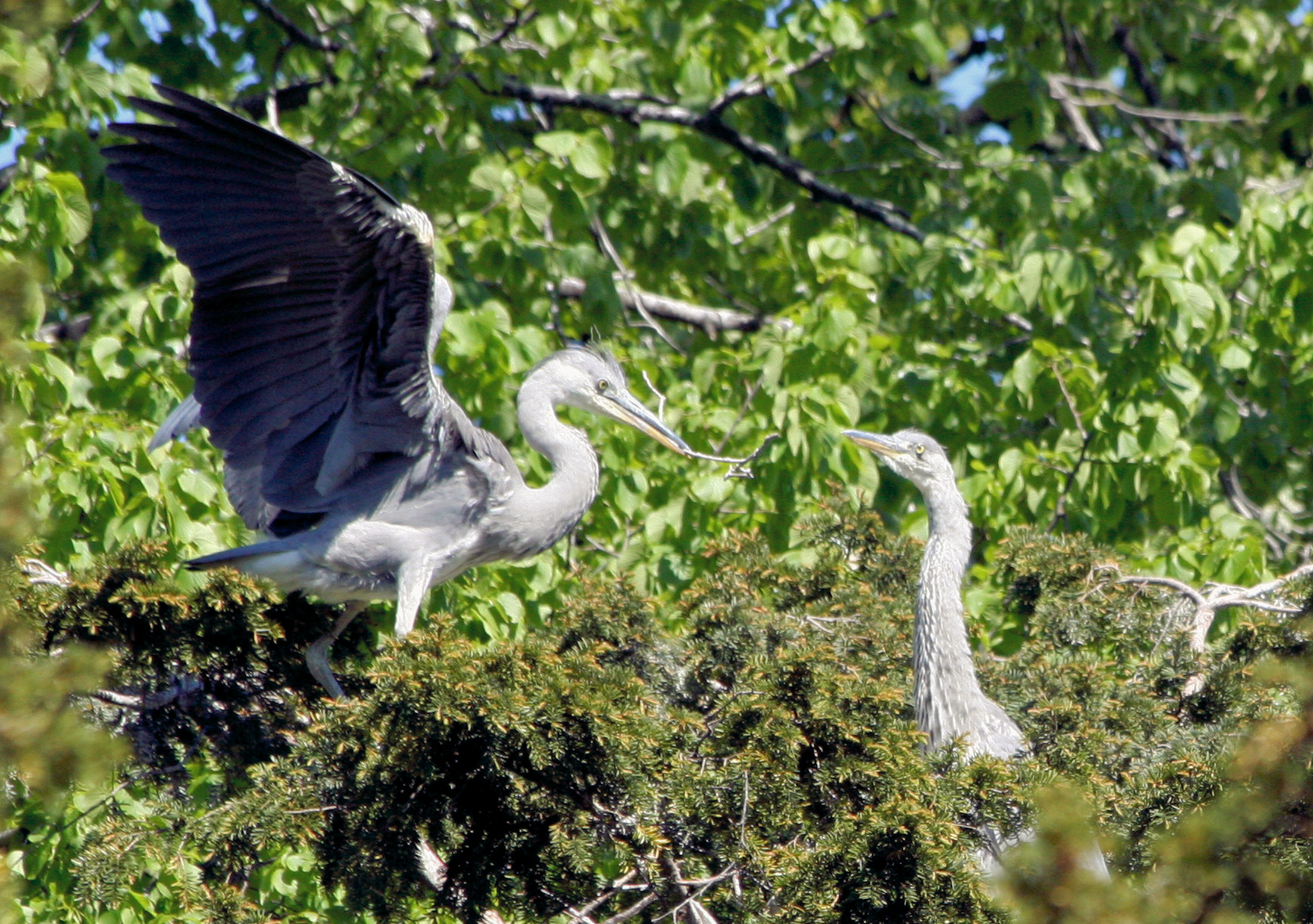 A pair of Grey Herons building a nest.